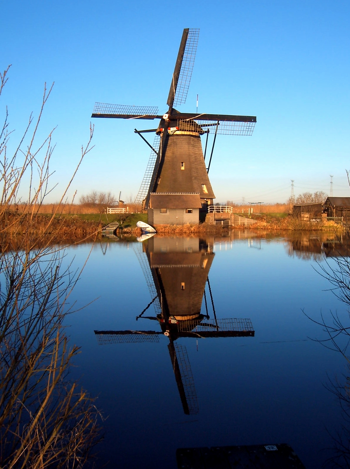 Kinderdijk's Windmiles